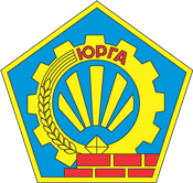 Yurga (Kemerovo oblast), coat of arms (1978)